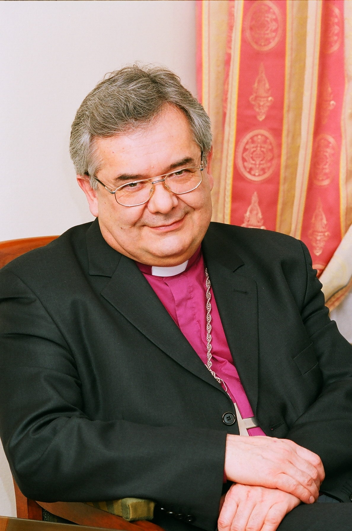 Polish Lutheran Bishop Mieczysław Cieślar (1950-2010)